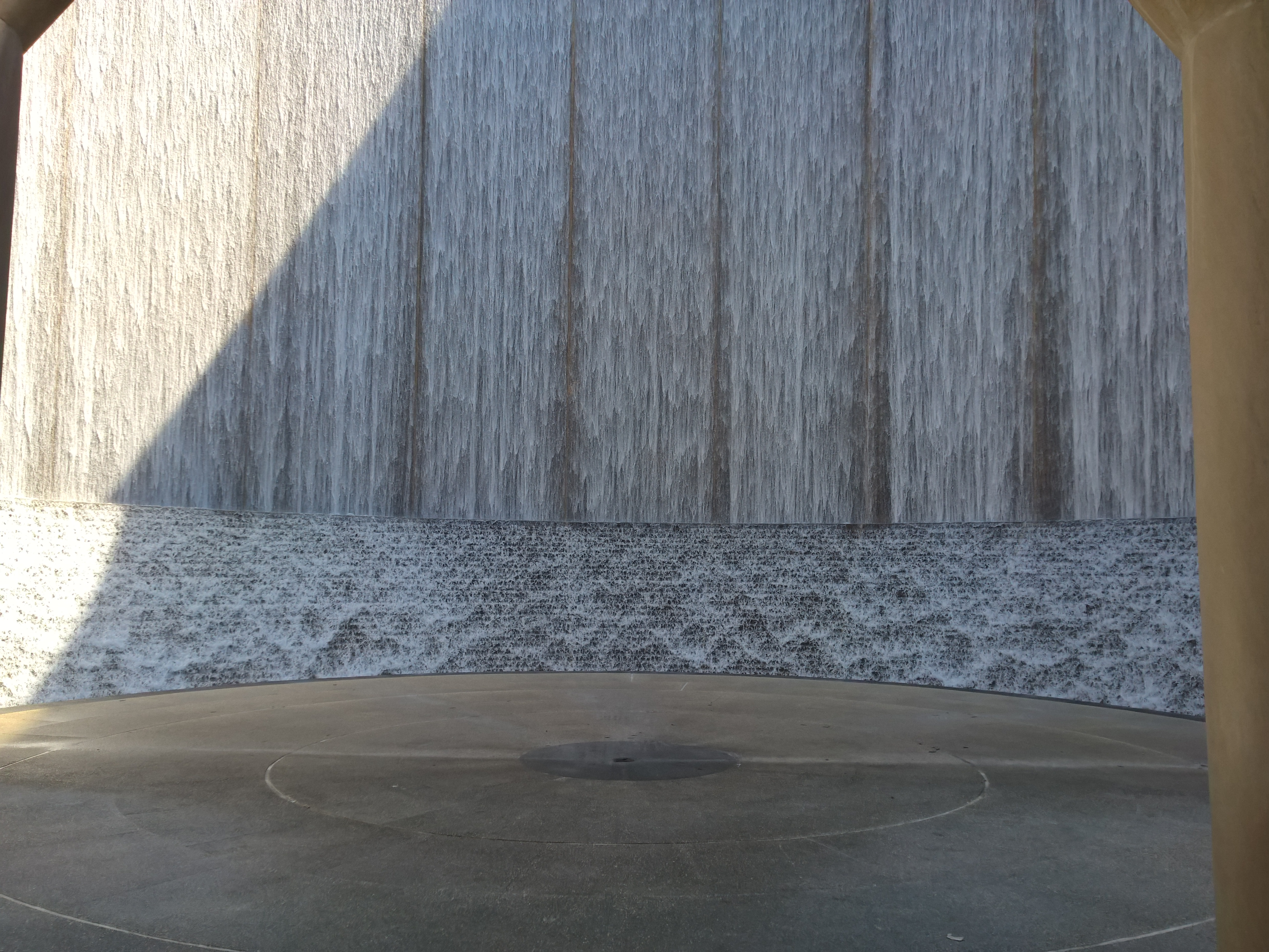 Interior dome.